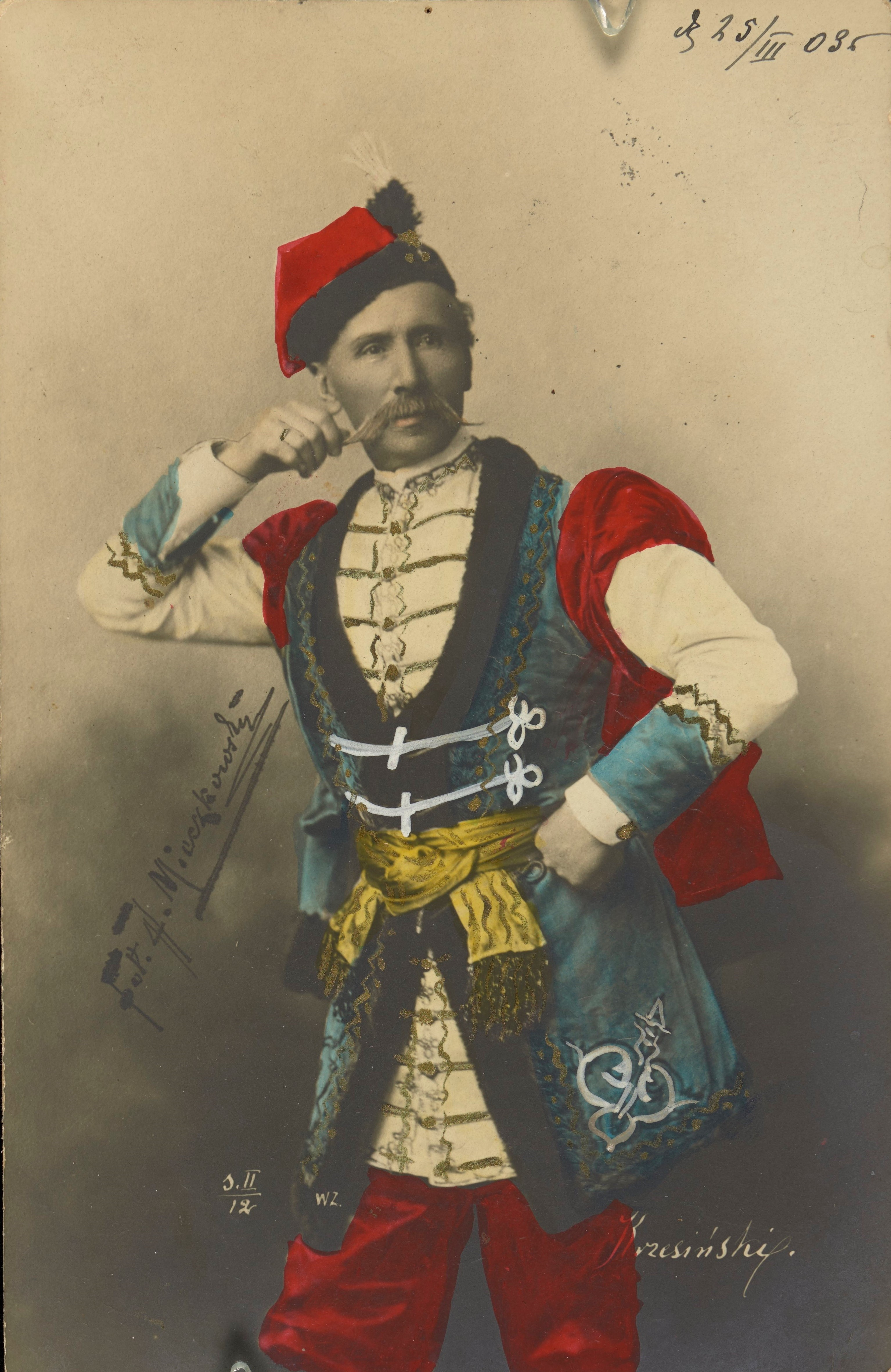 Feliks Krzesiński (Felix Kschessinsky) in ballet costume to Mazurka. Postcard from second half of 19th century.